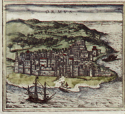 Hormus